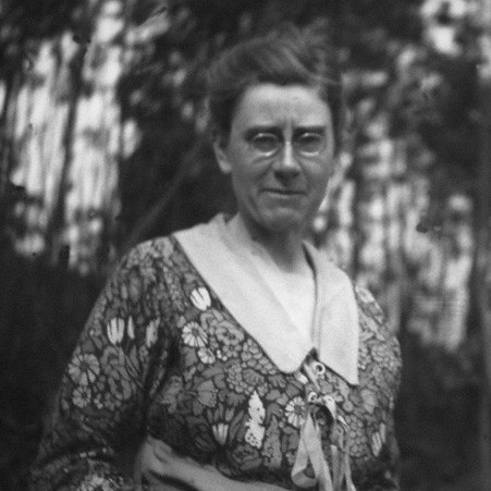 Philippa "Pippa" Strachey by Rachel "Ray" Pearsall Conn Strachey